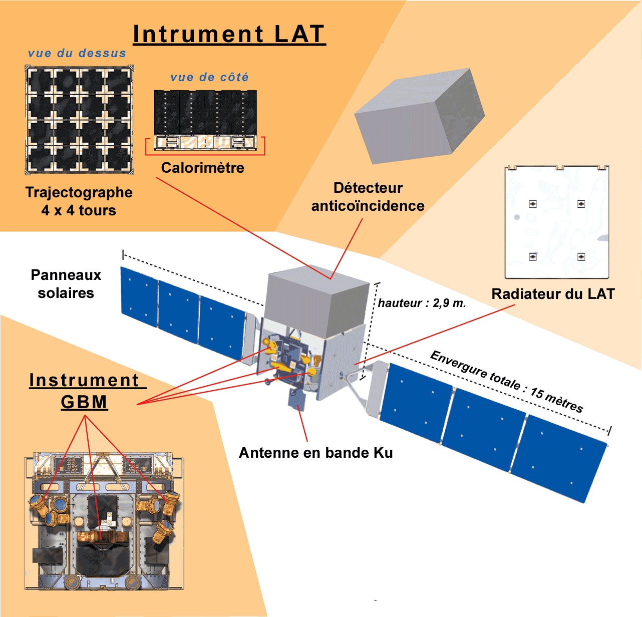 Schematic illustration of the GLAST satellite, with instruments labeled in french